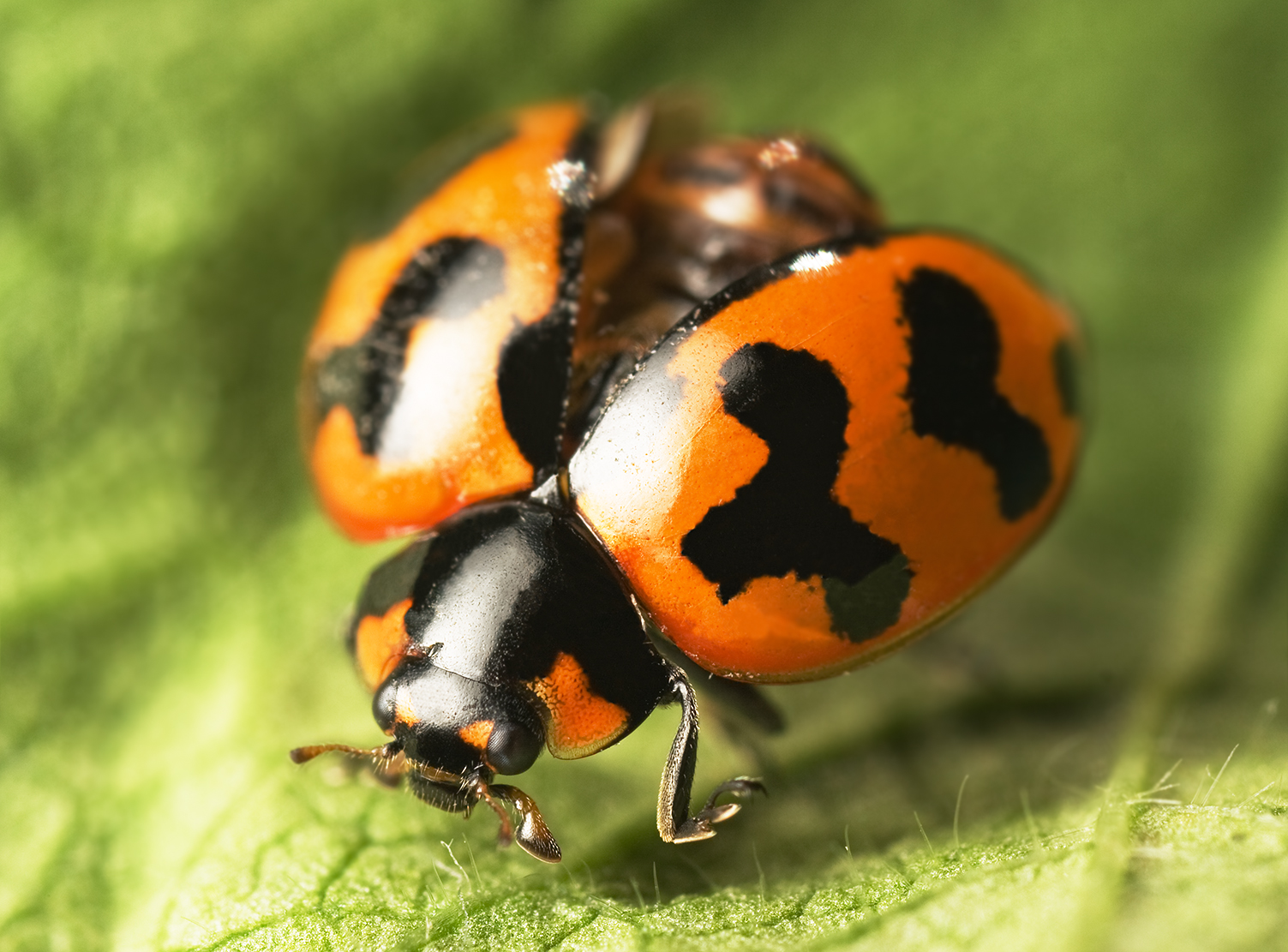 Transverse Ladybird (Coccinella transversalis), Austins Ferry, Tasmania, Australia